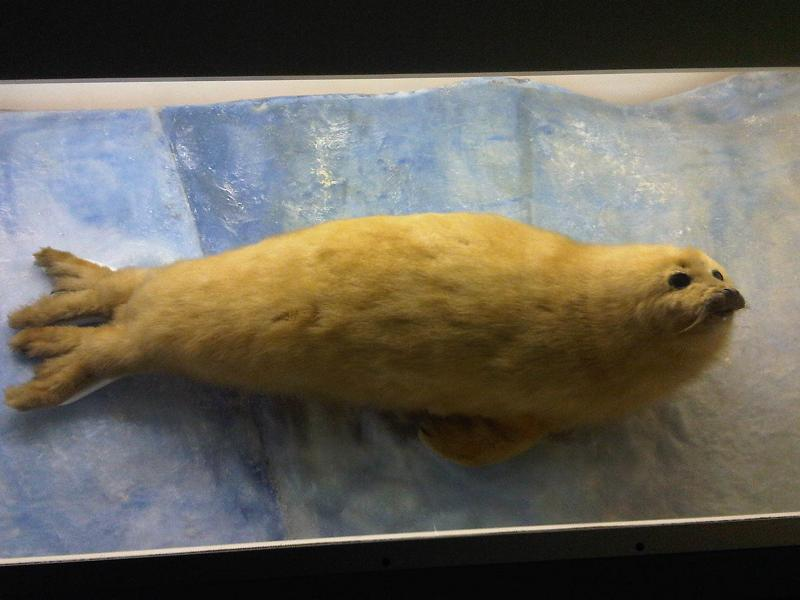 Taxidermied harp seal or saddleback seal (Pagophilus groenlandicus; syn. Phoca groenlandica) pup at the Natural History Museum in London, England.